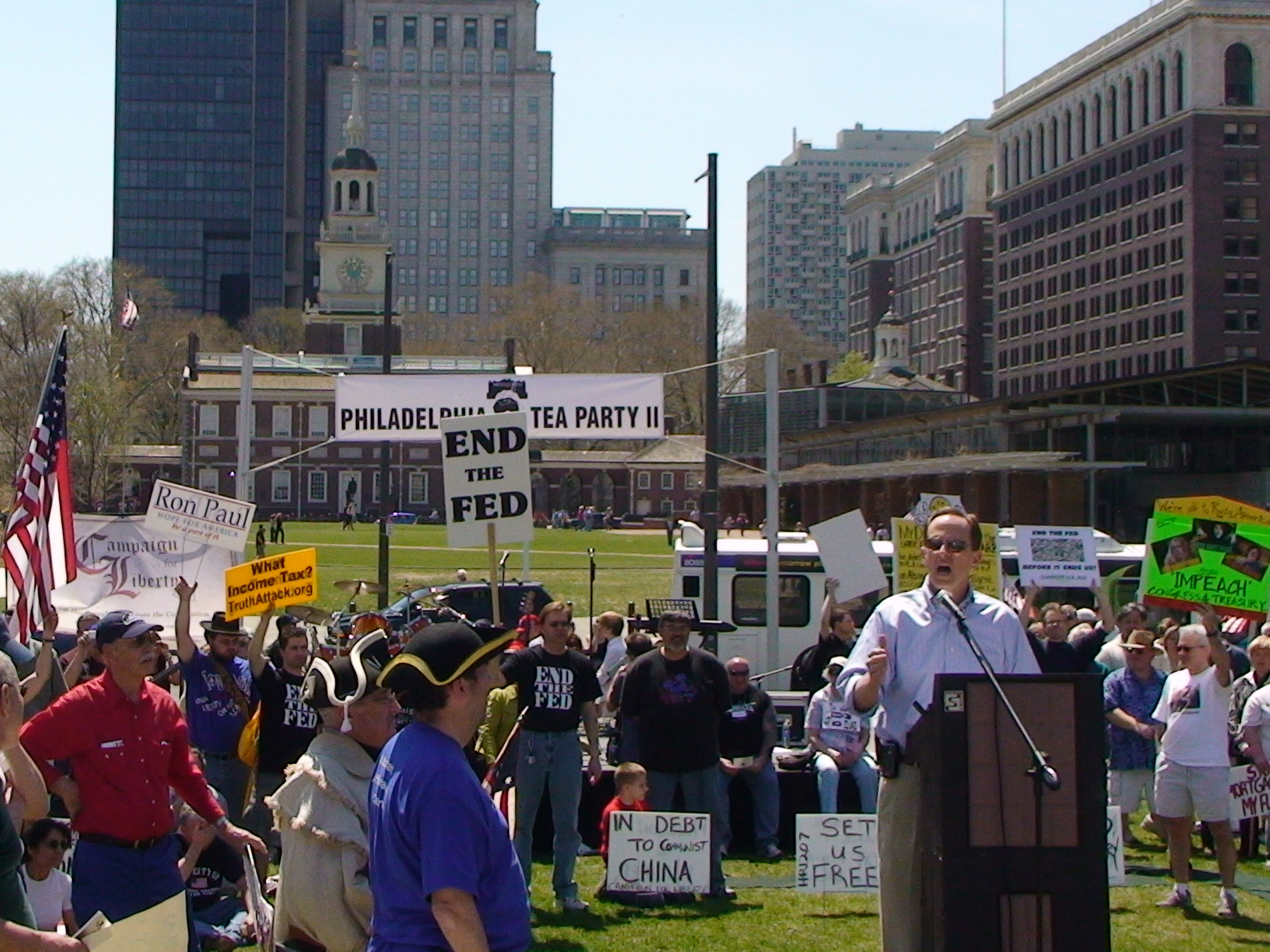 Pennsylvania Senate Candidate Pat Toomey addresses protestors at the Philadelphia Tea Party on April 18, 2009.